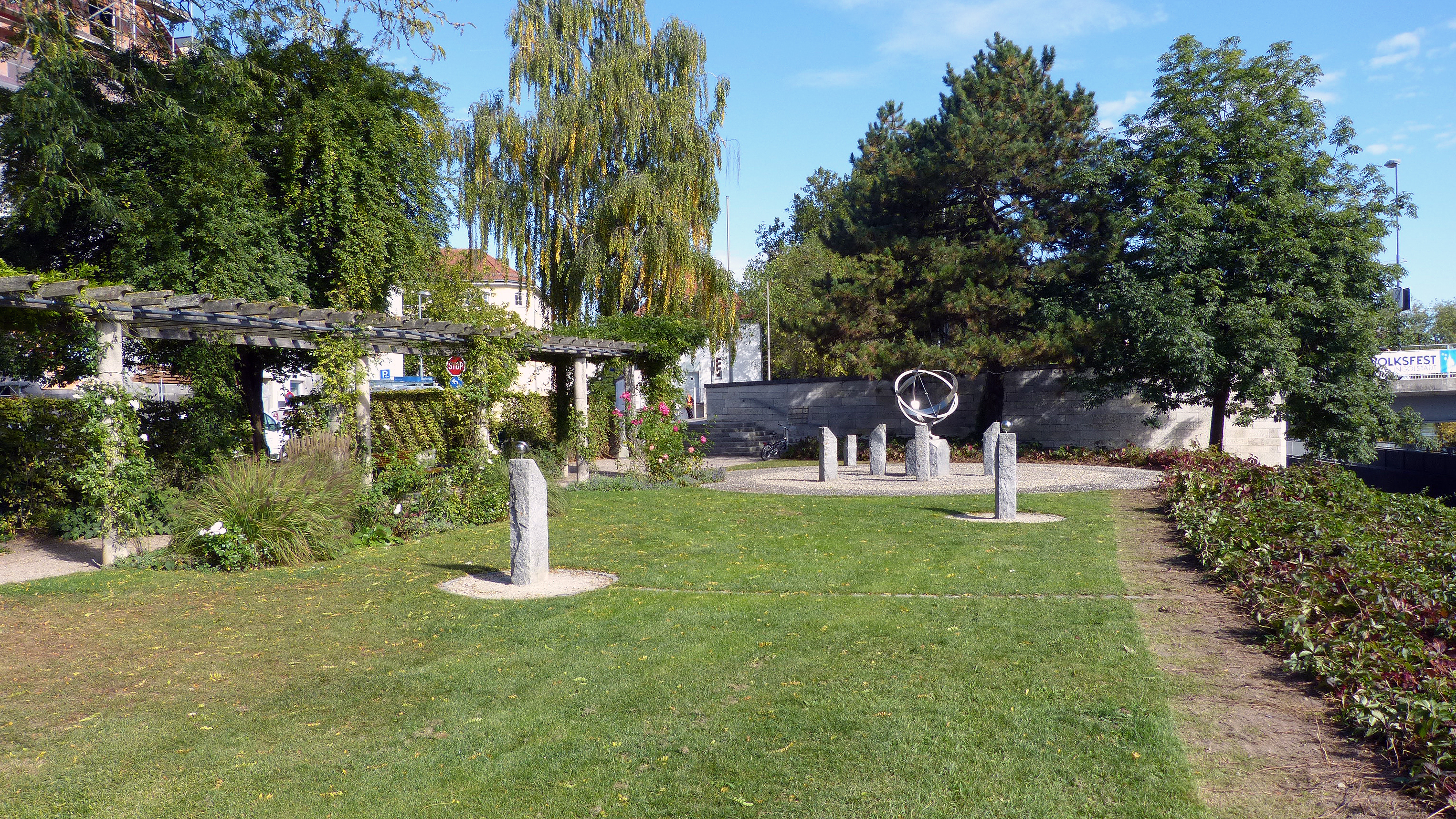 Planet trail in Ingolstadt, Bavaria